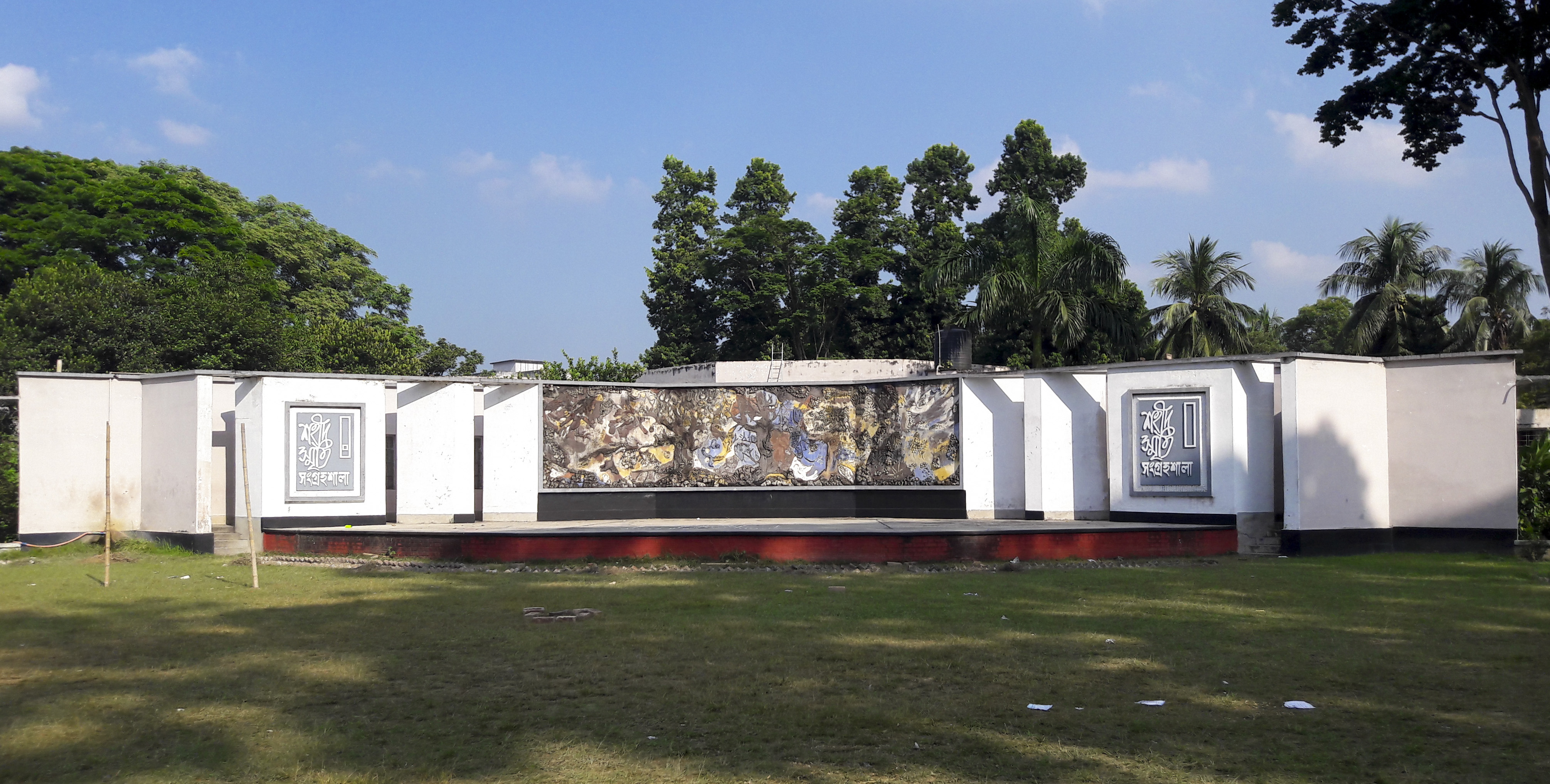 Rajshahi University Shaheed Smriti Sangrahshala. A museum of liberation war in 1971.